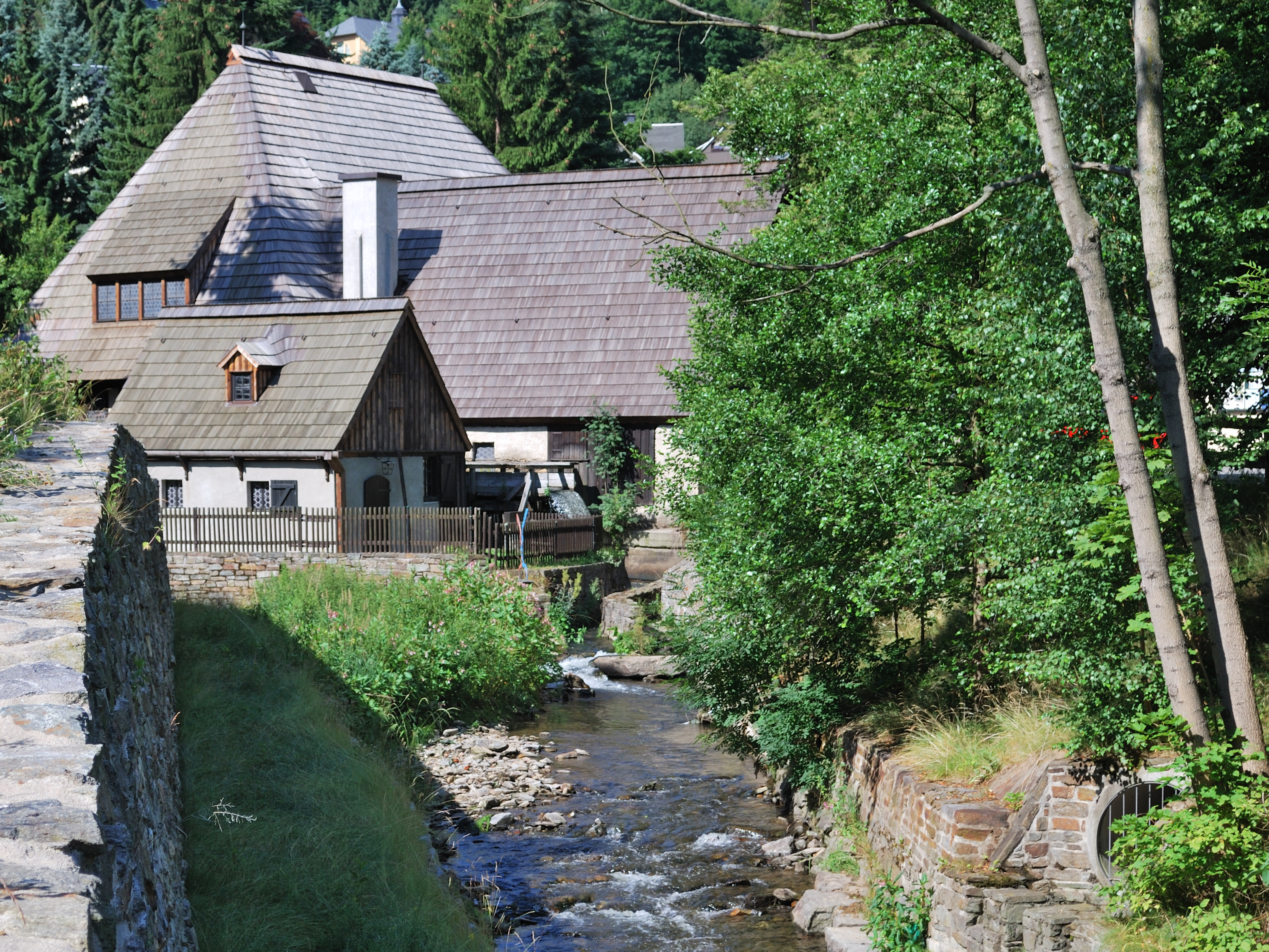 The historical hammer mill Frohnauer Hammer on the river Sehma in Annaberg-Buchholz in Saxony, Germany.